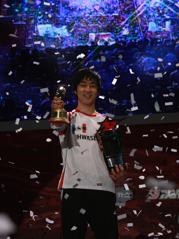 Lee Jaedong celebrates after winning finals of the 2009 Batoo OnGameNet Starleague, held in South Korea